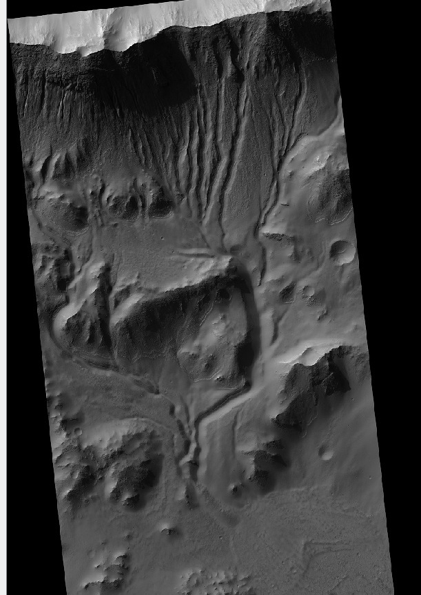 Gullies, as seen by hirise under HiWish program. Location is 33.6 S and 169.7 E.